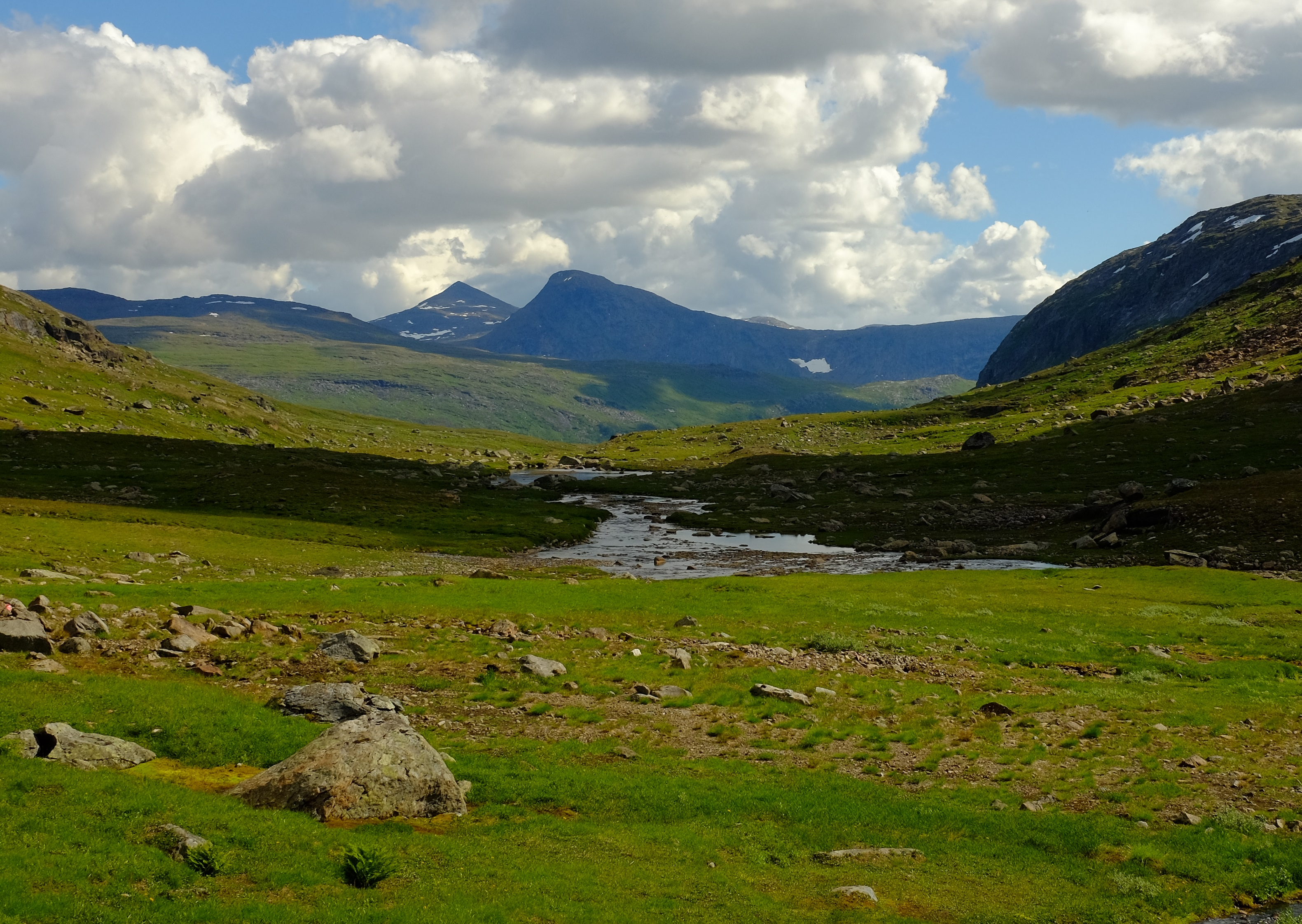 Bjørntoppen summit and Tausafjell mountain seen from Rykkjedalen valley. Mountains near the Swedish border in Saltdal municipality in Nordland.